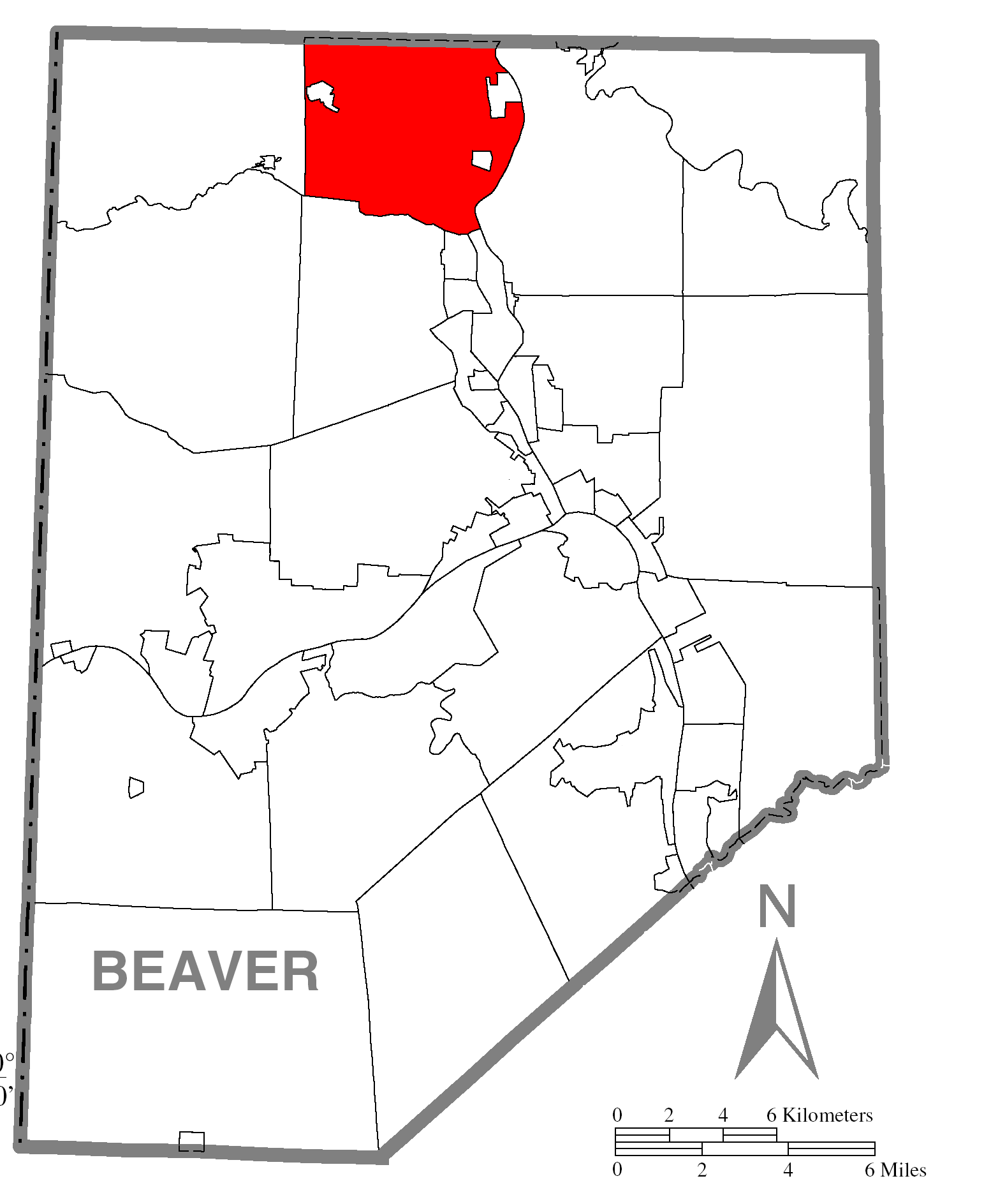 A map of Beaver County showing Big Beaver, Pennsylvania (alternate) highlighted on the map.